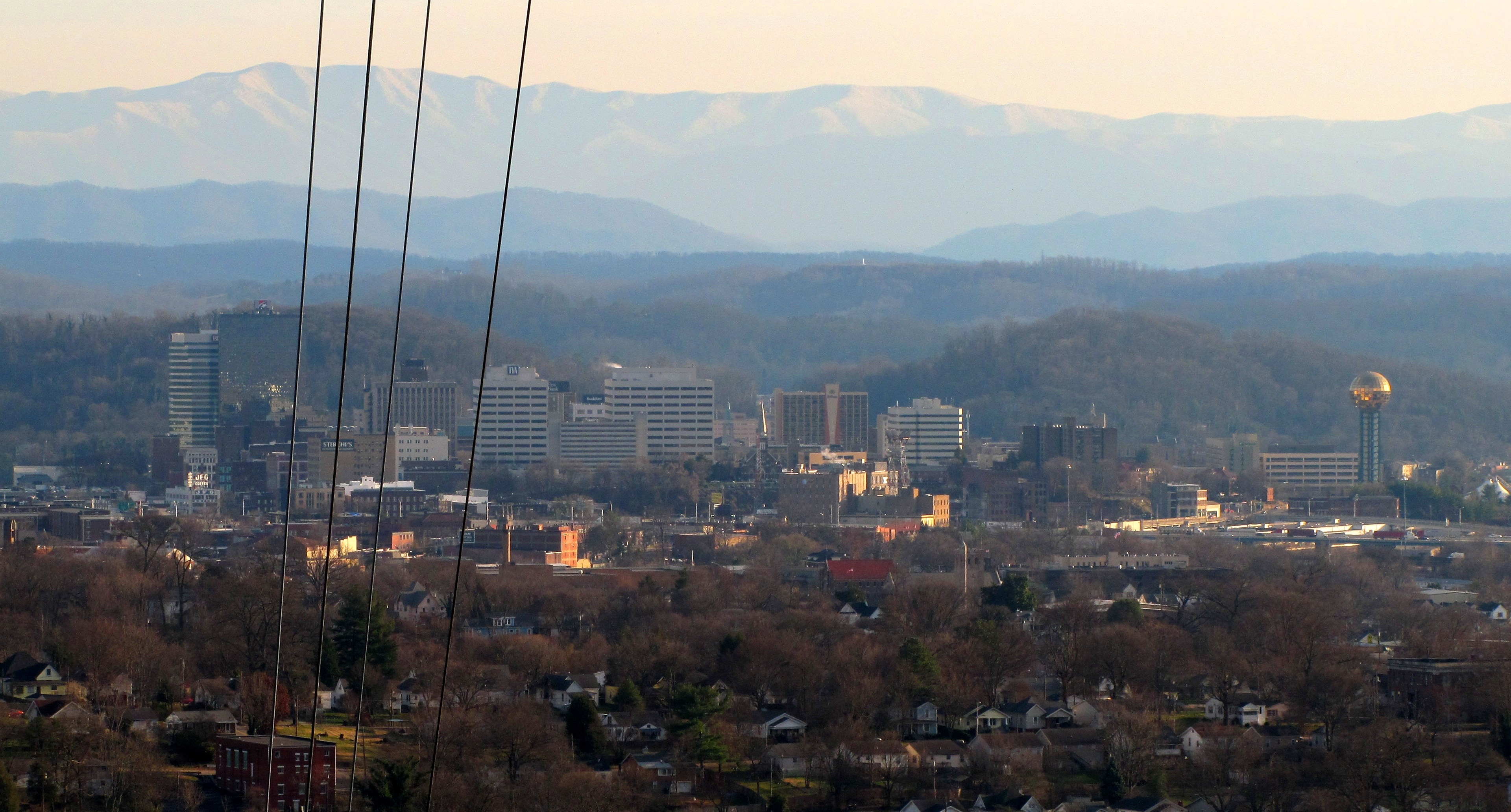 Downtown Knoxville, Tennessee, USA, with the Great Smoky Mountains rising in the distance, as viewed from Sharp's Ridge. The Sunsphere is on the extreme right, and the Plaza Tower and Riverview Tower are on the far left. The headquarters of the Tennessee Valley Authority is left of center. The four vertical lines on the left side of the photograph are power lines in the foreground.